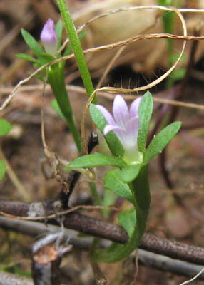 Githopsis diffusa ssp. diffusa — San Gabriel bluecup. Taken on NPS lands west of Malibu Creek State Park — in the Santa Monica Mountains National Recreation Area, California. NPS photo, no copyright.